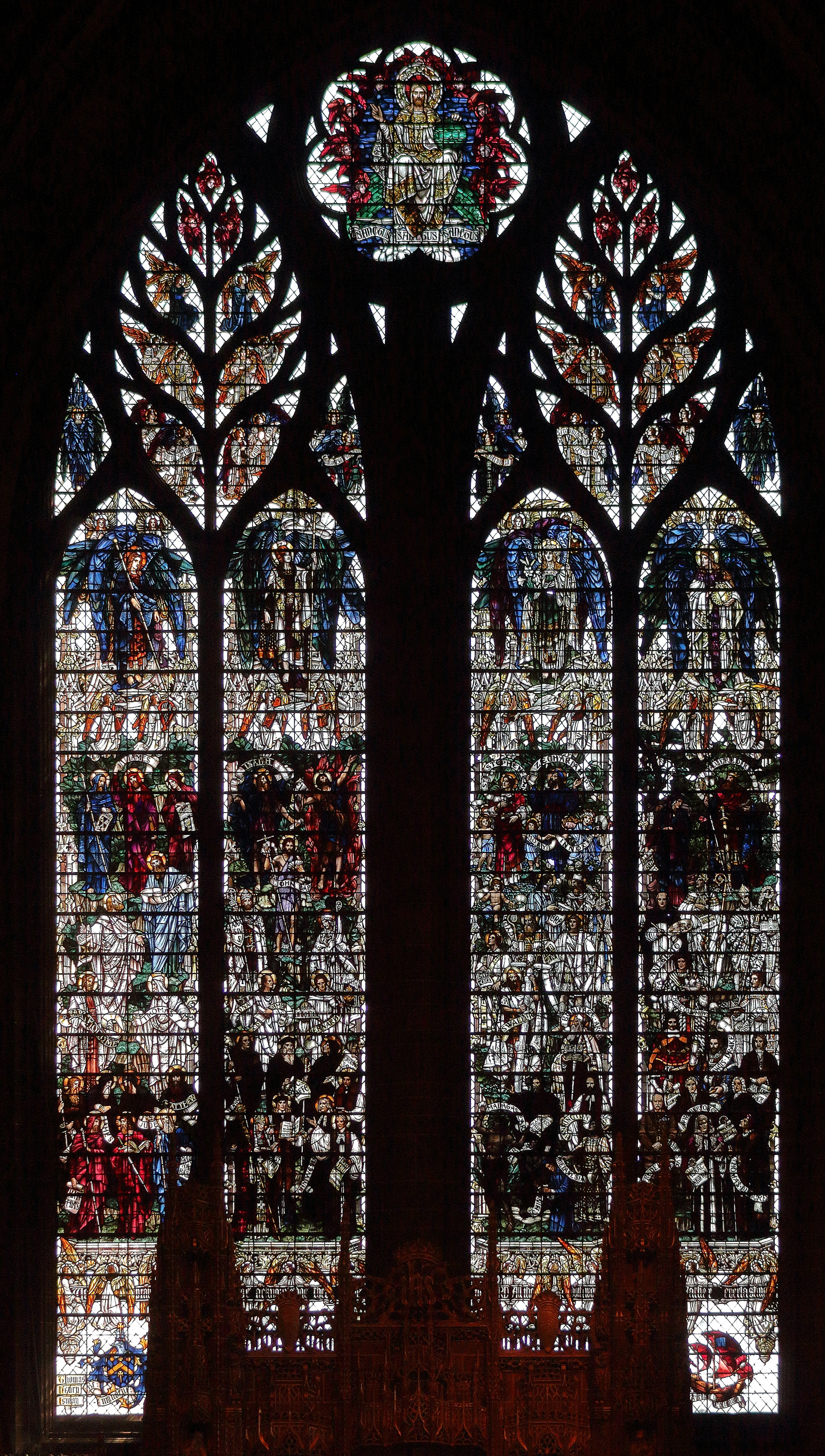 East window by John William Brown, 1921. Taken from the Dulverton Bridge.